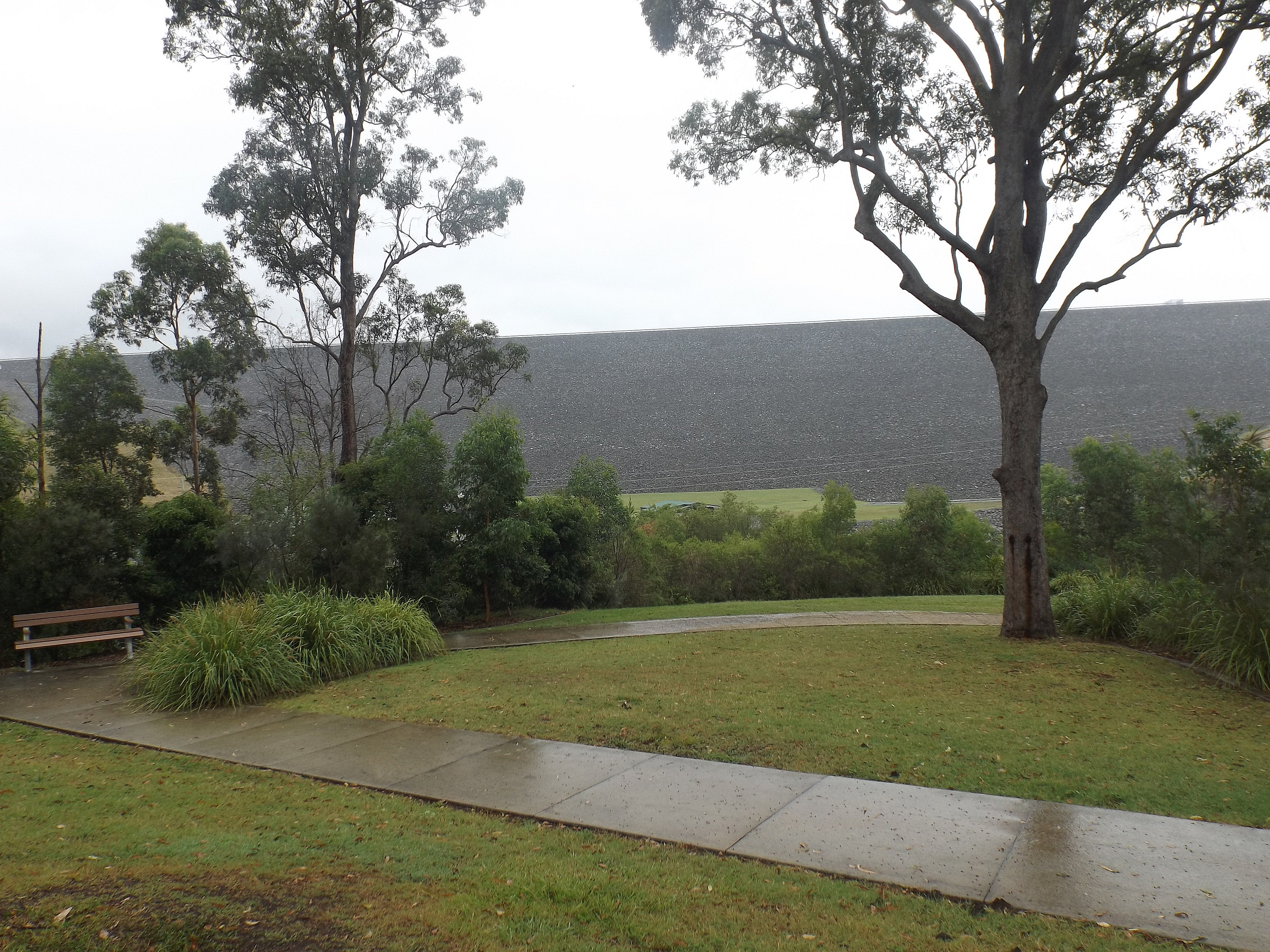 Photo of the Hinze Dam wall, park and path in Advancetown, Gold Coast City, Queensland, Australia.